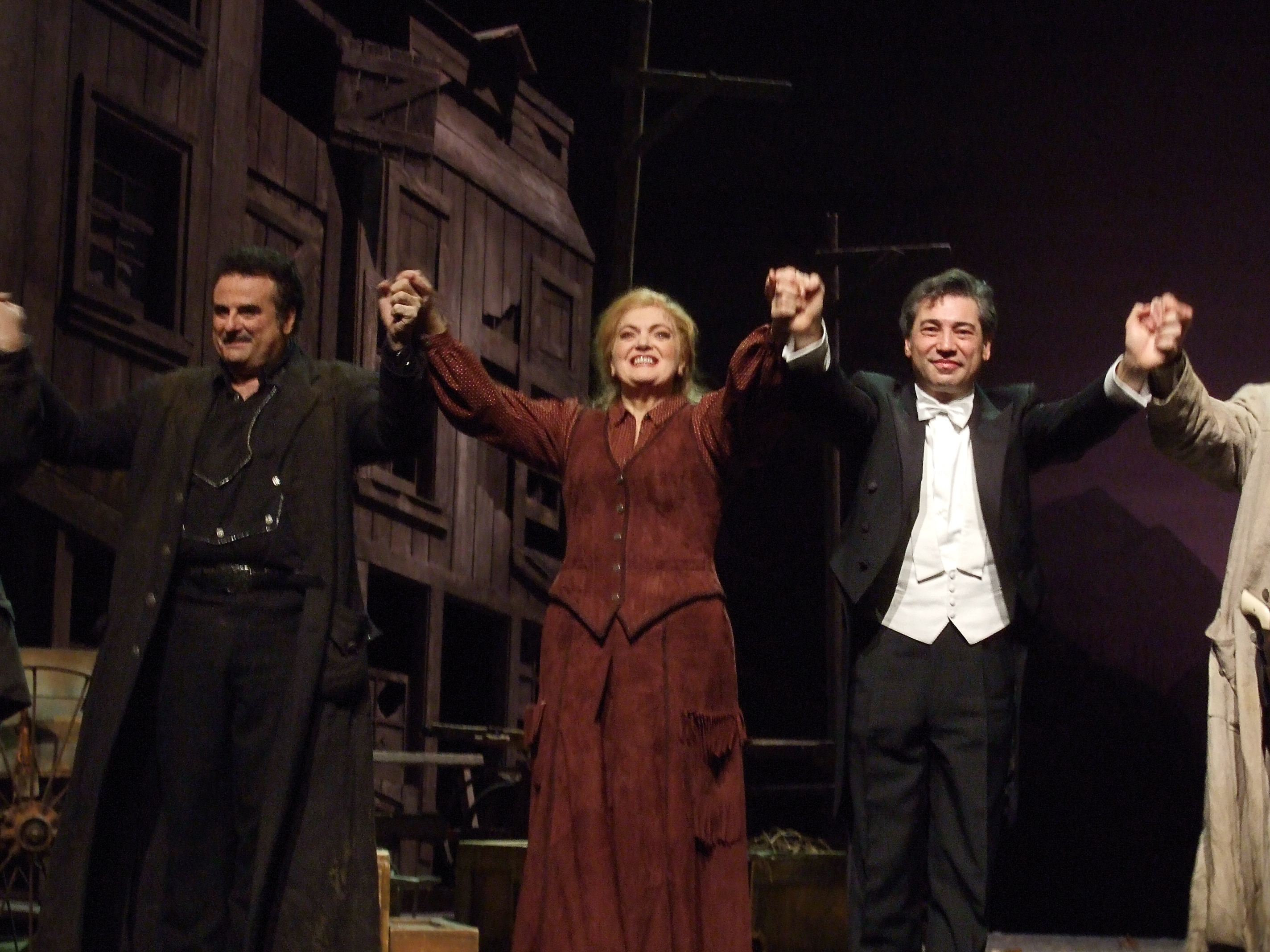 Description on flickr: Marcello Giordani (Dick Johnson), Elisabete Matos (Minnie), Nicola Luisotti (conductor) Puccini's opera La fanciulla del West, Metropolitan Opera December 22, 2010 Broadcast live on Sirius and XM Metropolitan Opera Radio Metropolitan Opera debut performance for Elisabete Matos